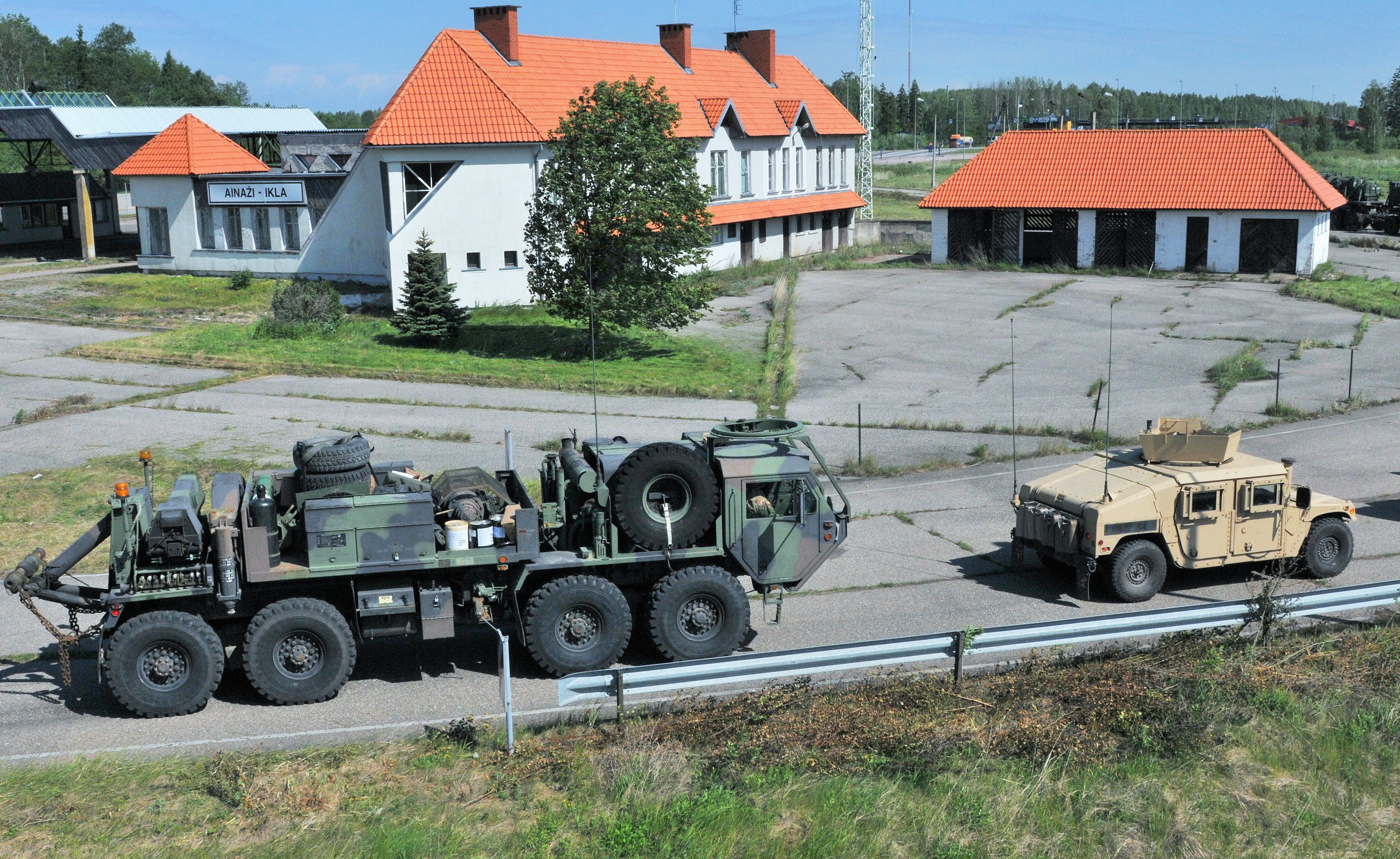 A convoy of U.S. Army vehicles take a tactical pause at the Ainazi-Inkla border crossing between Latvia and Estonia during a freedom of movement operation from Camp Adazi to Tapa June 3. The tactical vehicles of A Troop, 1st Squadron (Airborne), 91st Cavalry Regiment, 173rd Airborne Brigade Combat Team, out of Grafenwohr, Germany along with C Company, 2nd Infantry Battalion, 7th Infantry Regiment, 3rd Infantry Division out of Fort Stewart, Ga., traveled to Estonia as a demonstration of the freedom of movement and cooperation between NATO allies, Latvia and Estonia. The Soldiers of A Troop and C Company are participating in Saber Strike 2015 in Estonia which is in conjunction with Operation Atlantic Resolve, an ongoing multinational partnership focused on joint training and security cooperation between the U.S. and other NATO allies. (U.S. Army photo by Capt. Ryan Jernegan, 16th Mobile Public Affairs Detachment)